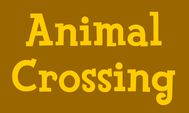 The text "Animal Crossing" in the Fink Heavy font, colored #FFCC00 on a #996600 background. Suitable for infoboxes in articles about Animal Crossing in projects that cannot fairly use the box art.